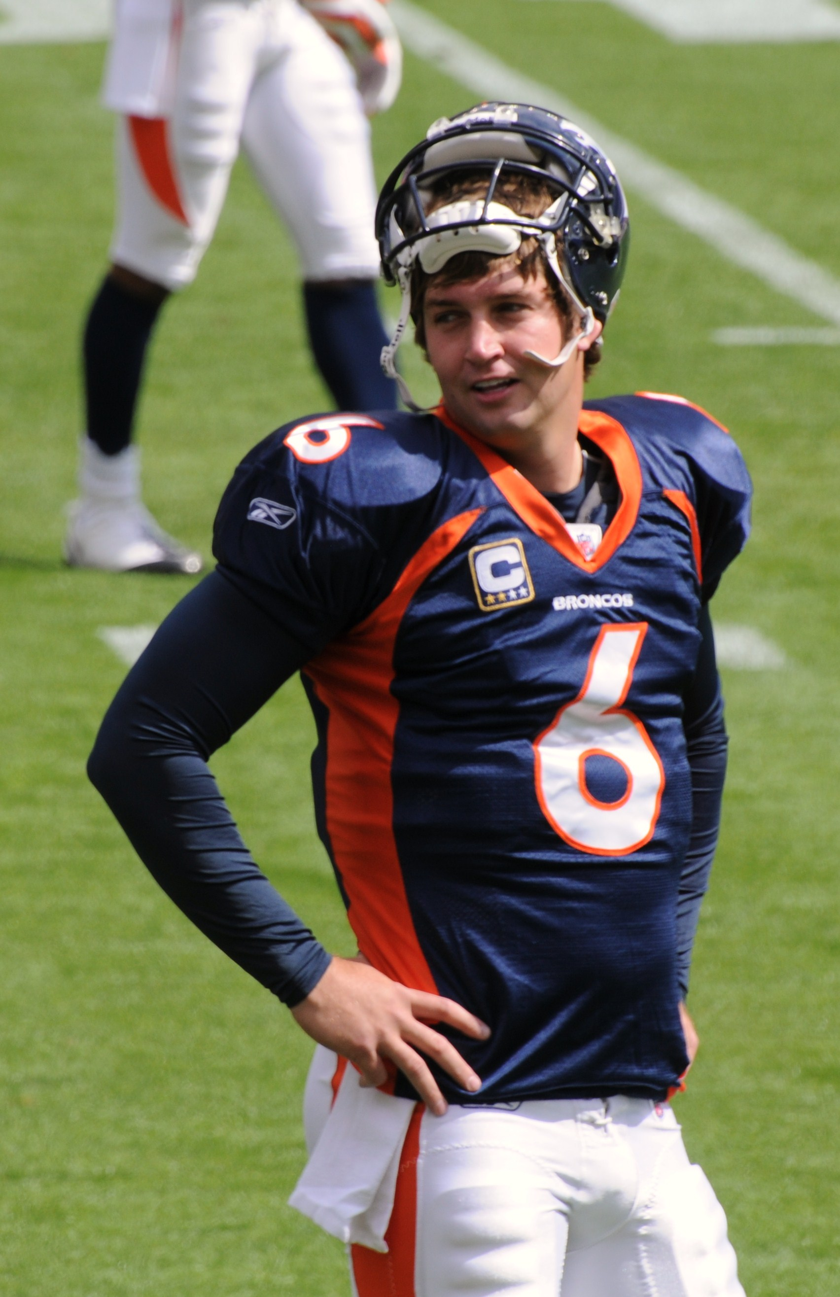 own work, GFDL license